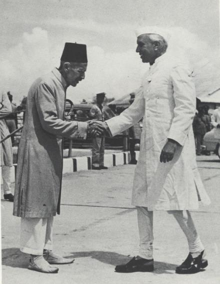 Jawaharlal Nehru being greeted by the Nizam of Hyderabad, 28 September 1952